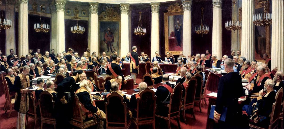 Formal Session of the State Council on May 7, 1901, in honour of the 100th Anniversary of Its Founding.label QS:Len,"Formal Session of the State Council on May 7, 1901, in honour of the 100th Anniversary of Its Founding." label QS:Lru,"Торжественное заседание Государственного Совета 7 мая 1901 года в честь столетнего юбилея со дня его учреждения." label QS:Les,"Sesión solemne del Consejo de Estado el 7 de mayo de 1901 con motivo del centésimo aniversario de su fundación."